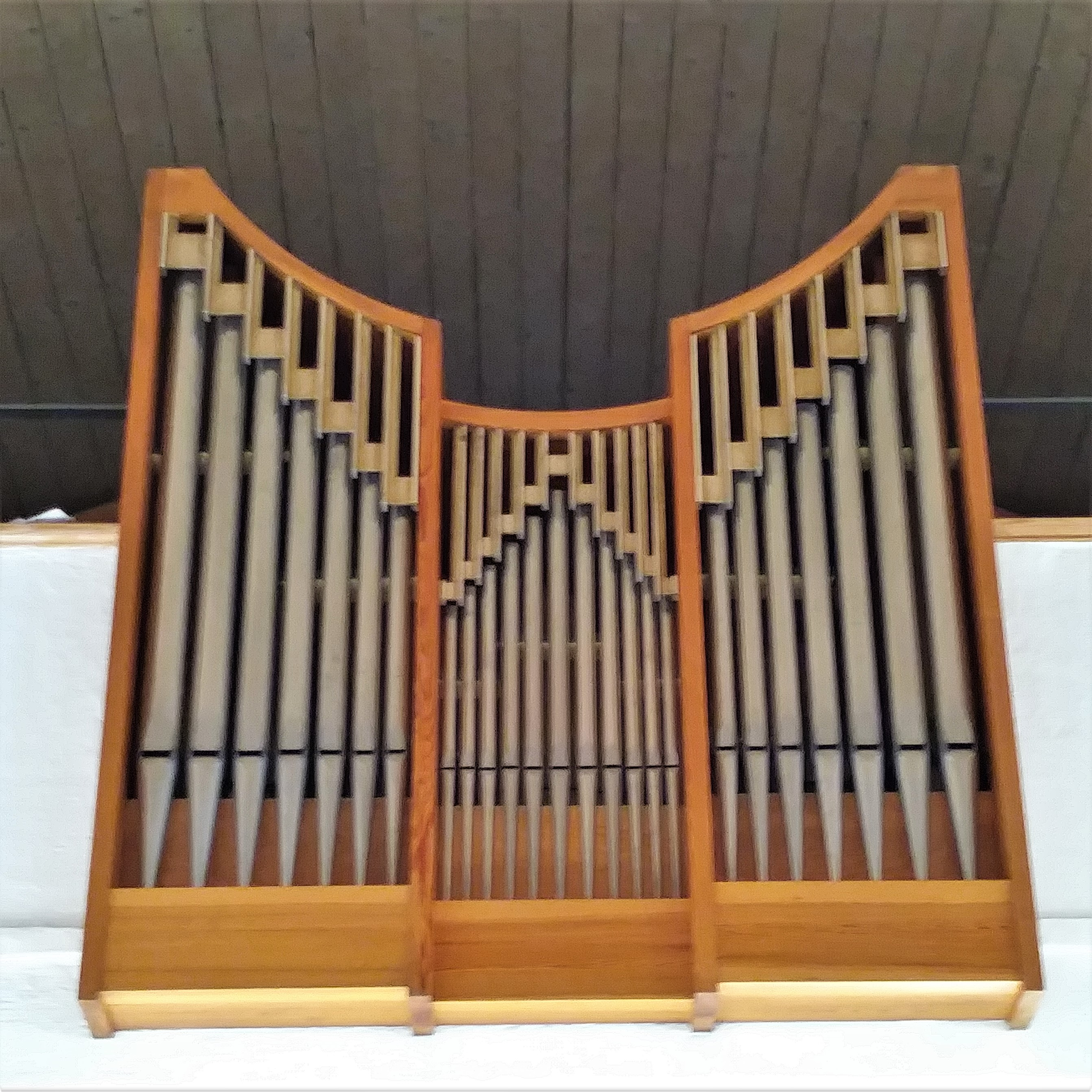 Katholische Kirche St. Alto in Unterhaching (Garhammer-Orgel)